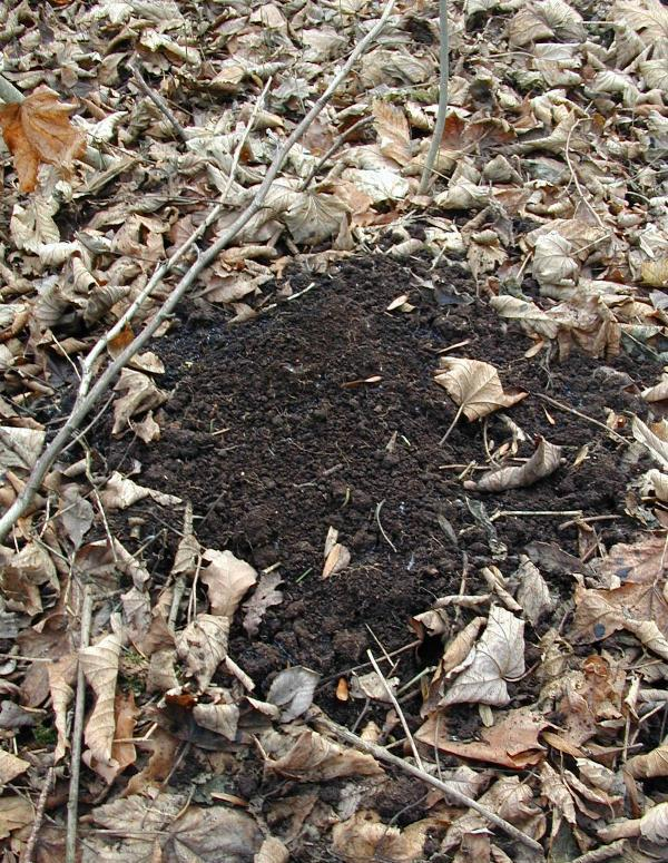 Topsoil and dry leafs